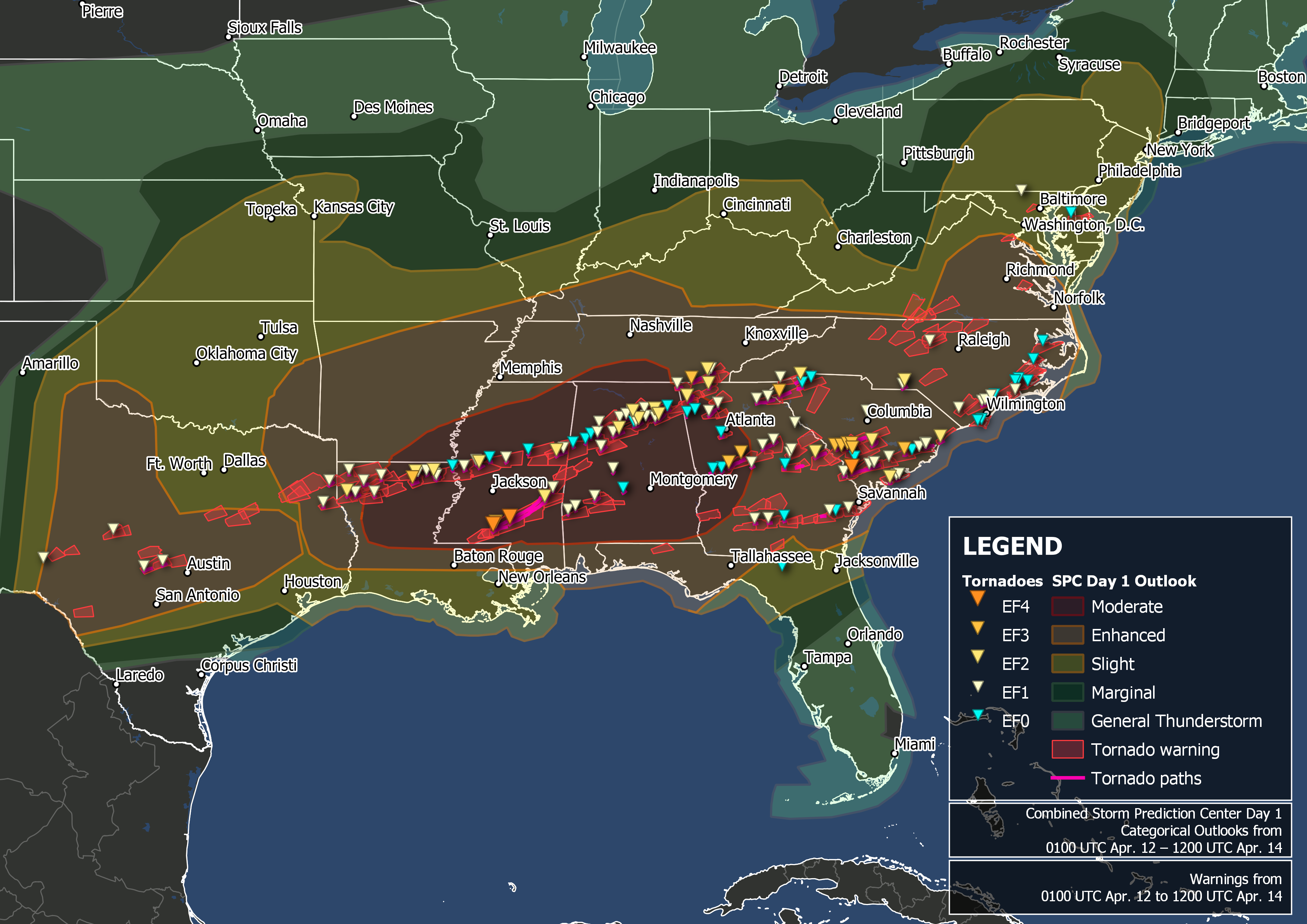 Map of confirmed tornadoes and tornado warnings issued by the National Weather Service from April 12 through April 13, 2020, over the southeastern United States and tornadoes confirmed and surveyed by the National Weather Service. Map produced in QGIS with border outlines from the United States Census Bureau. National Weather Service warning outlines available from the Iowa Environmental Mesonet and tornado data available from the National Weather Service.